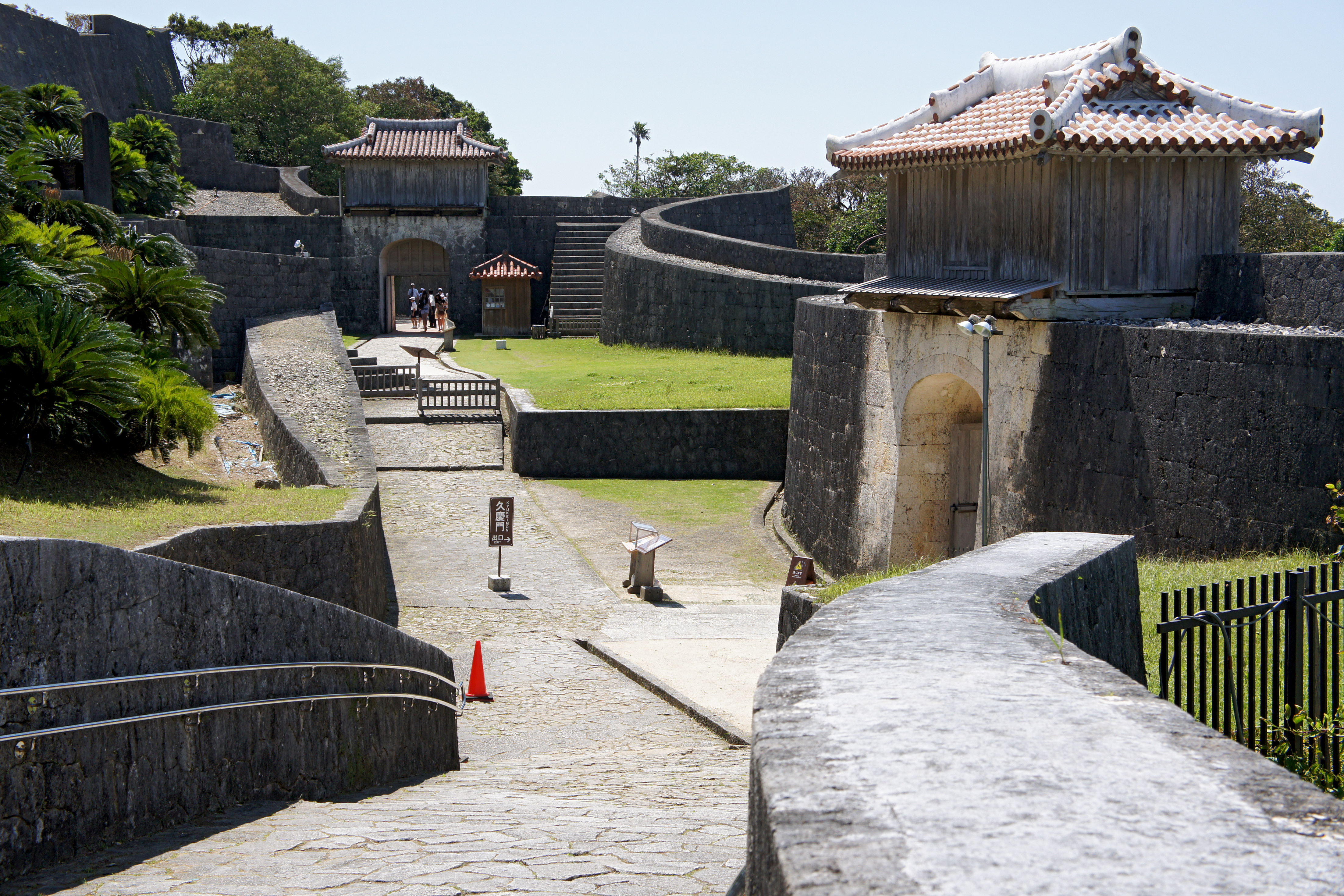 at Shuri Castle in Naha, Okinawa prefecture, Japan